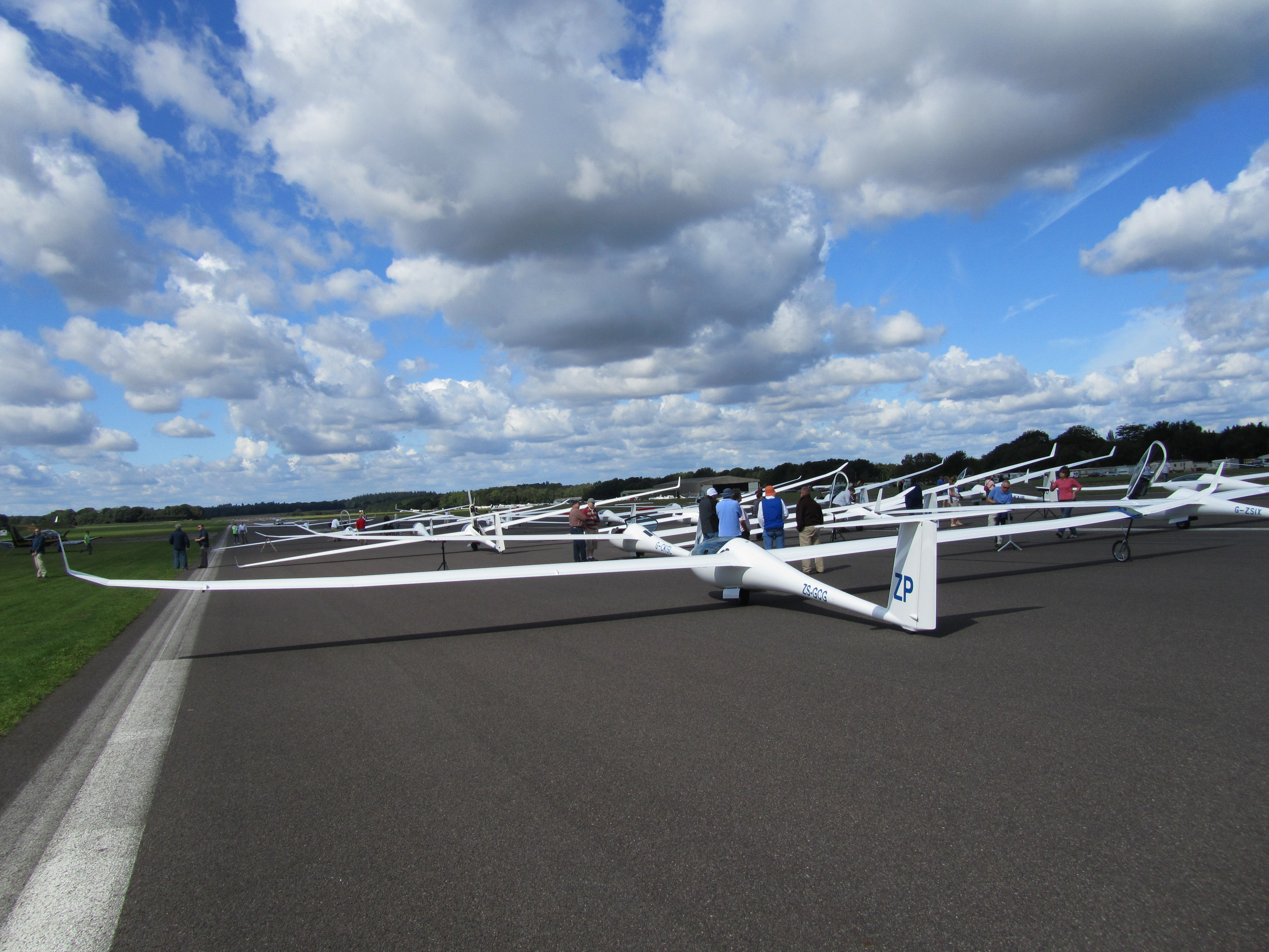 Gliding competitors awaiting launch while looking at cumulus clouds